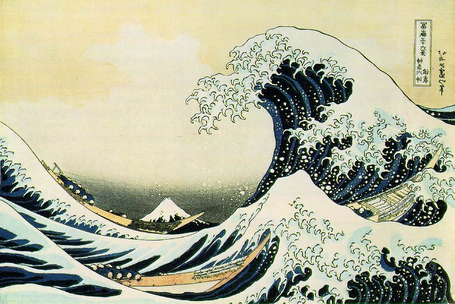 From Image:Tsunami by hokusai 19th century.jpg